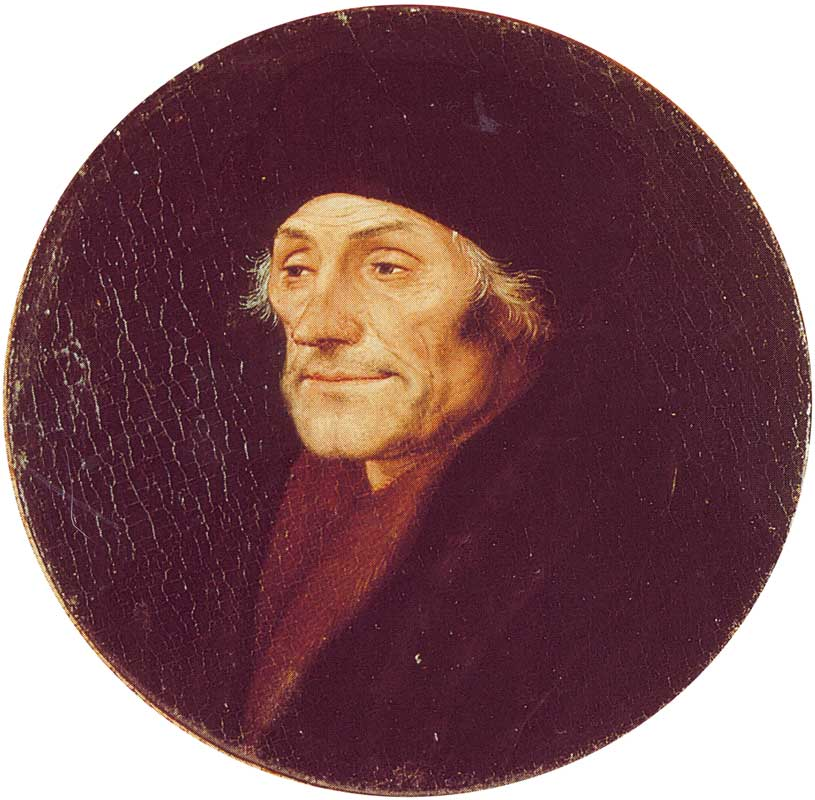 Desiderius Erasmus. By Hans Holbein the younger, undated. From: Hans Holbein le jeune: L'oeuvre du maitre. Paris, Librairie Hachette & Cie., 1912.